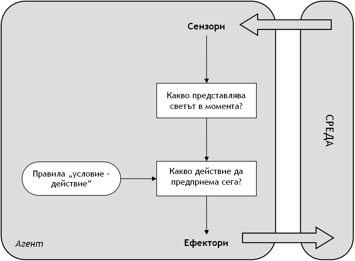 Diagram of a simple reflex intelligent agent. In Bulgarian.